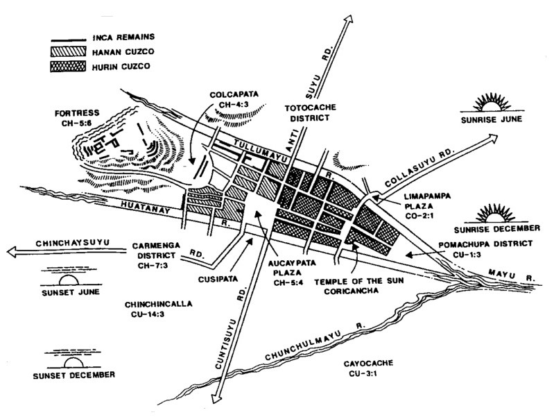 Cobo, Bernabé. Inca Religion and Customs. Trans. Roland Hamilton. Austin: Texas UP, 1990. Print.